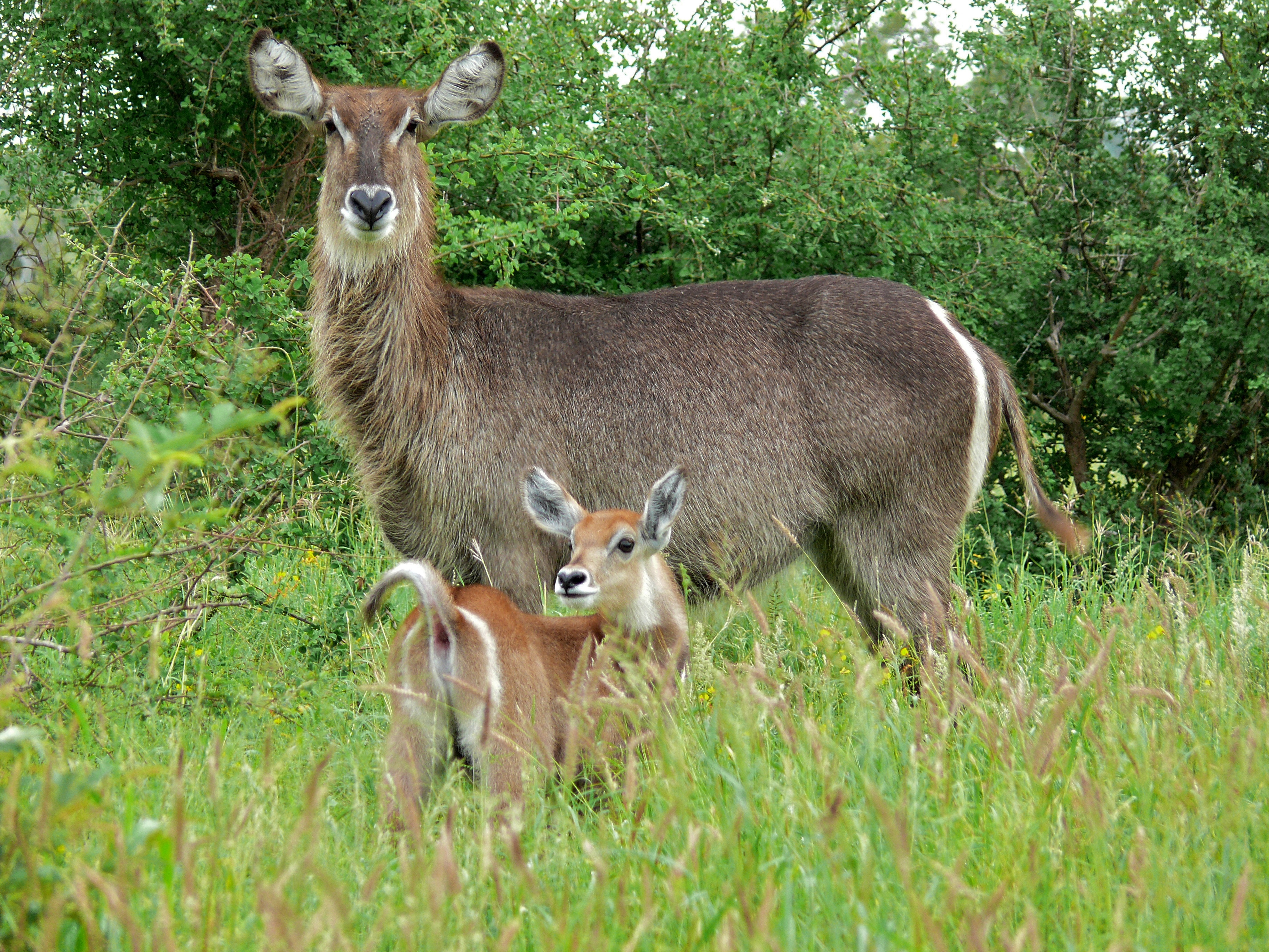 S90 North of Satara, Kruger NP, SOUTH AFRICA